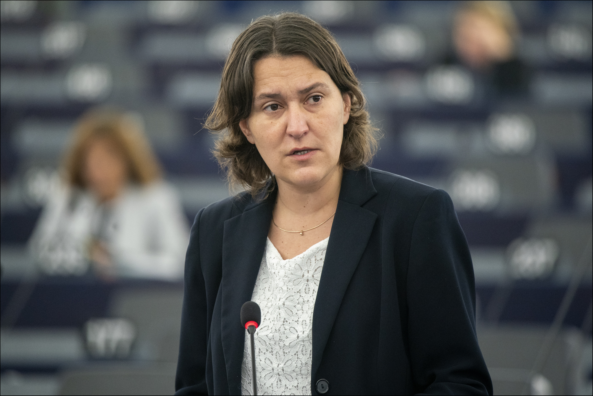 Kati Piri during a debate calling for measures against Turkey following military operation in Syria in the European Parliament